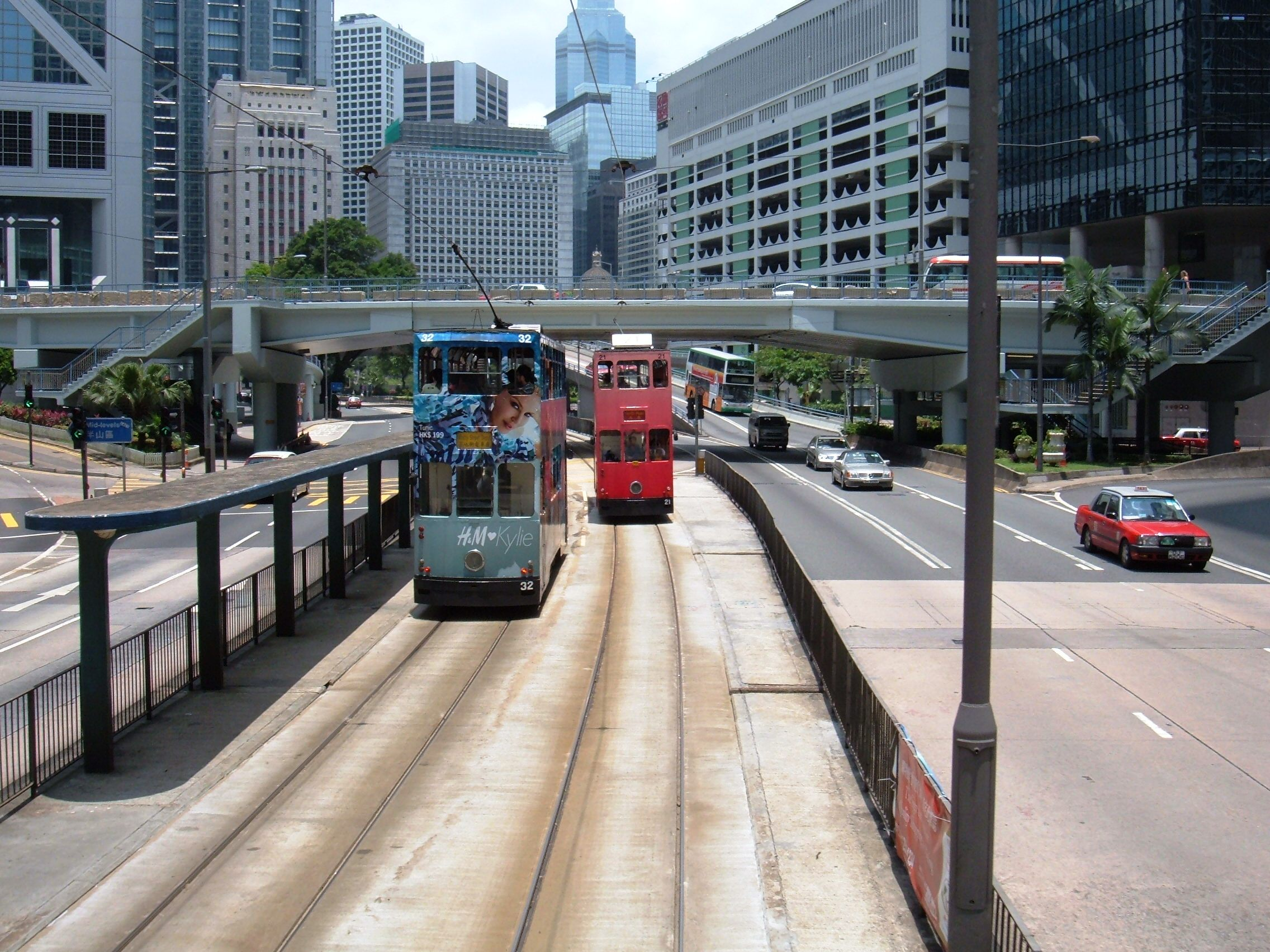 A pair of trams in Central, Hong Kong.